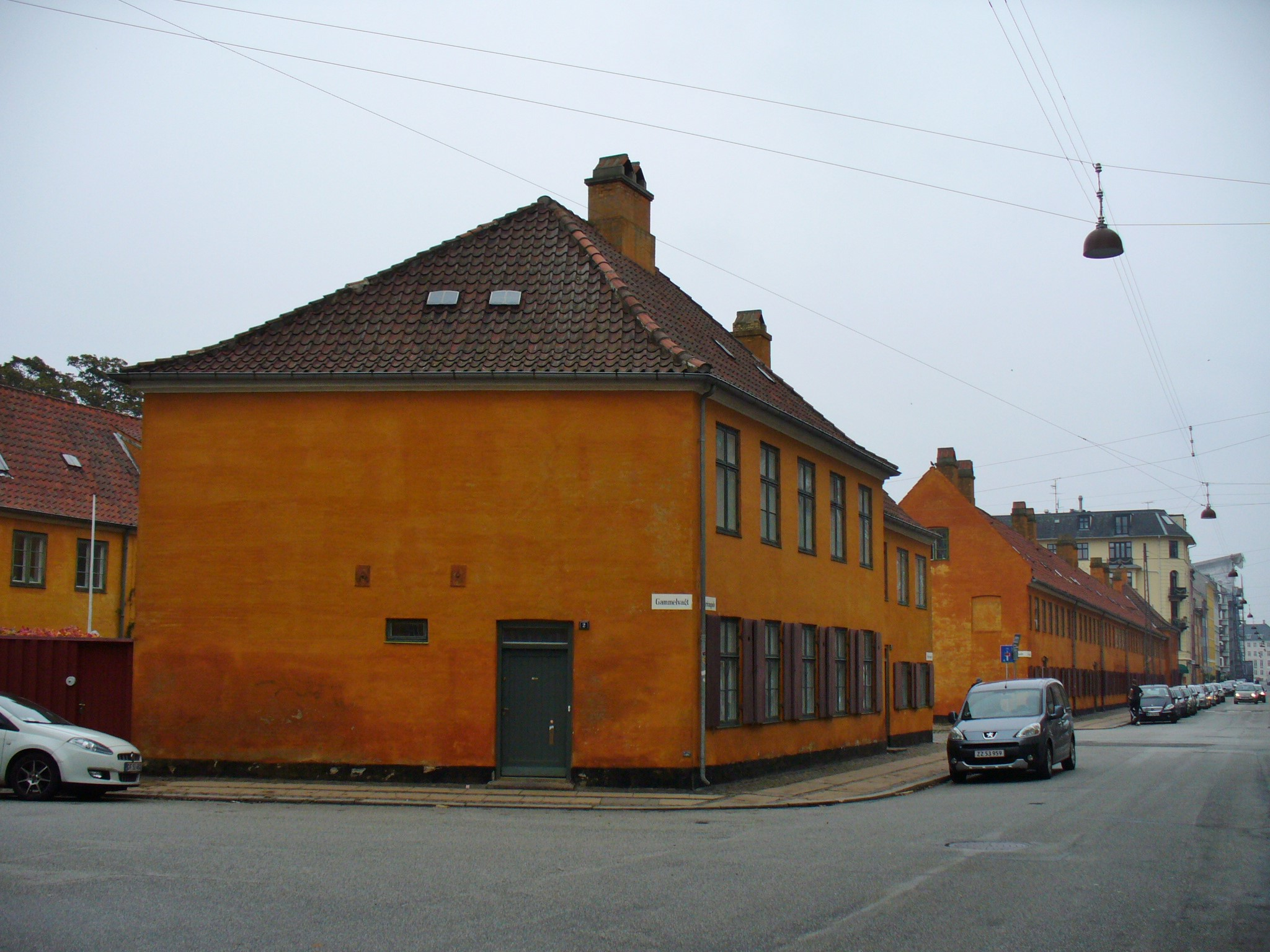 The corner of Gammelvagt and Fredericiagade in the area Nyboder in Copenhagen.